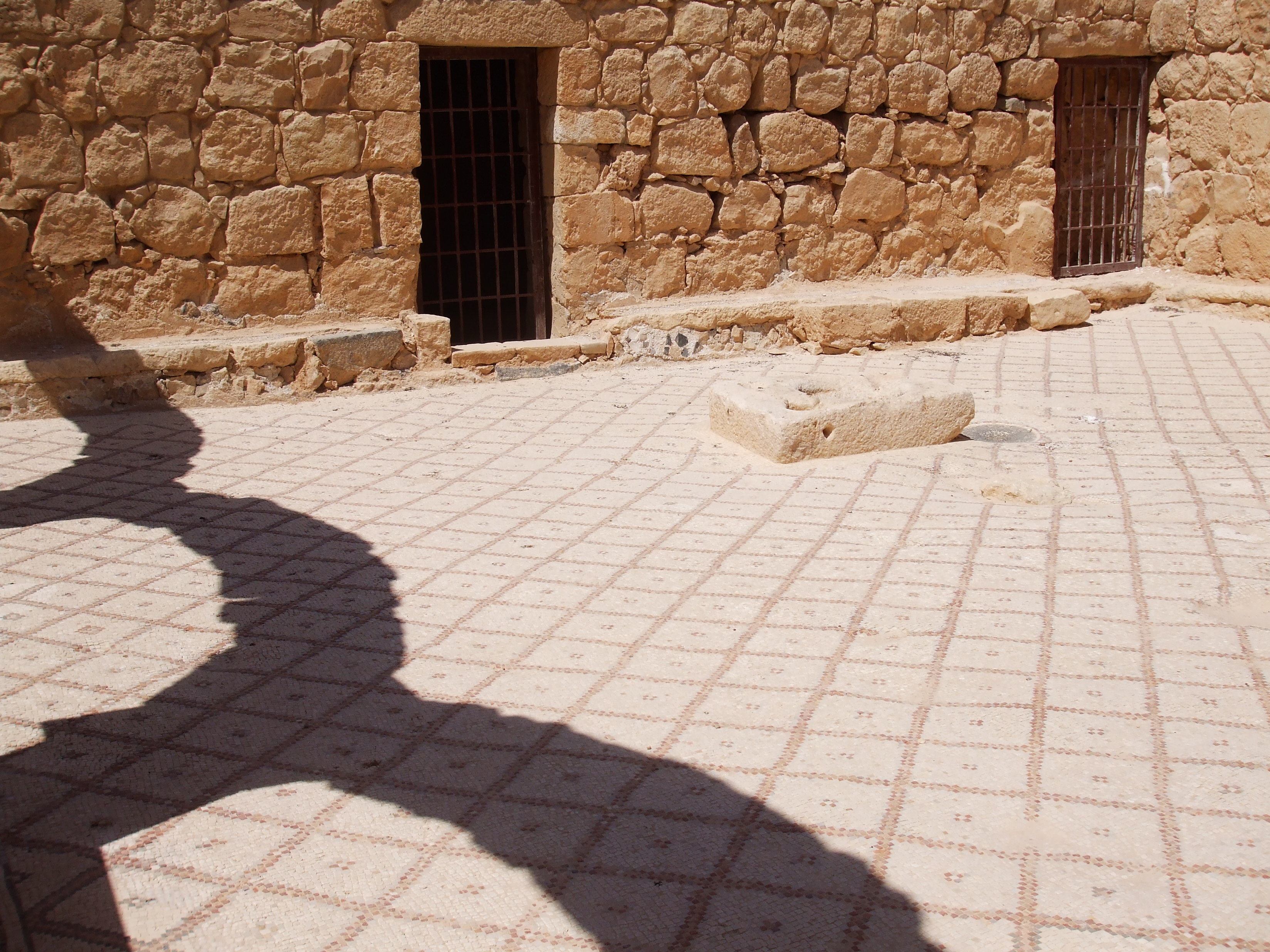 This is a mosaic floor from Qasr Al Hallabat.